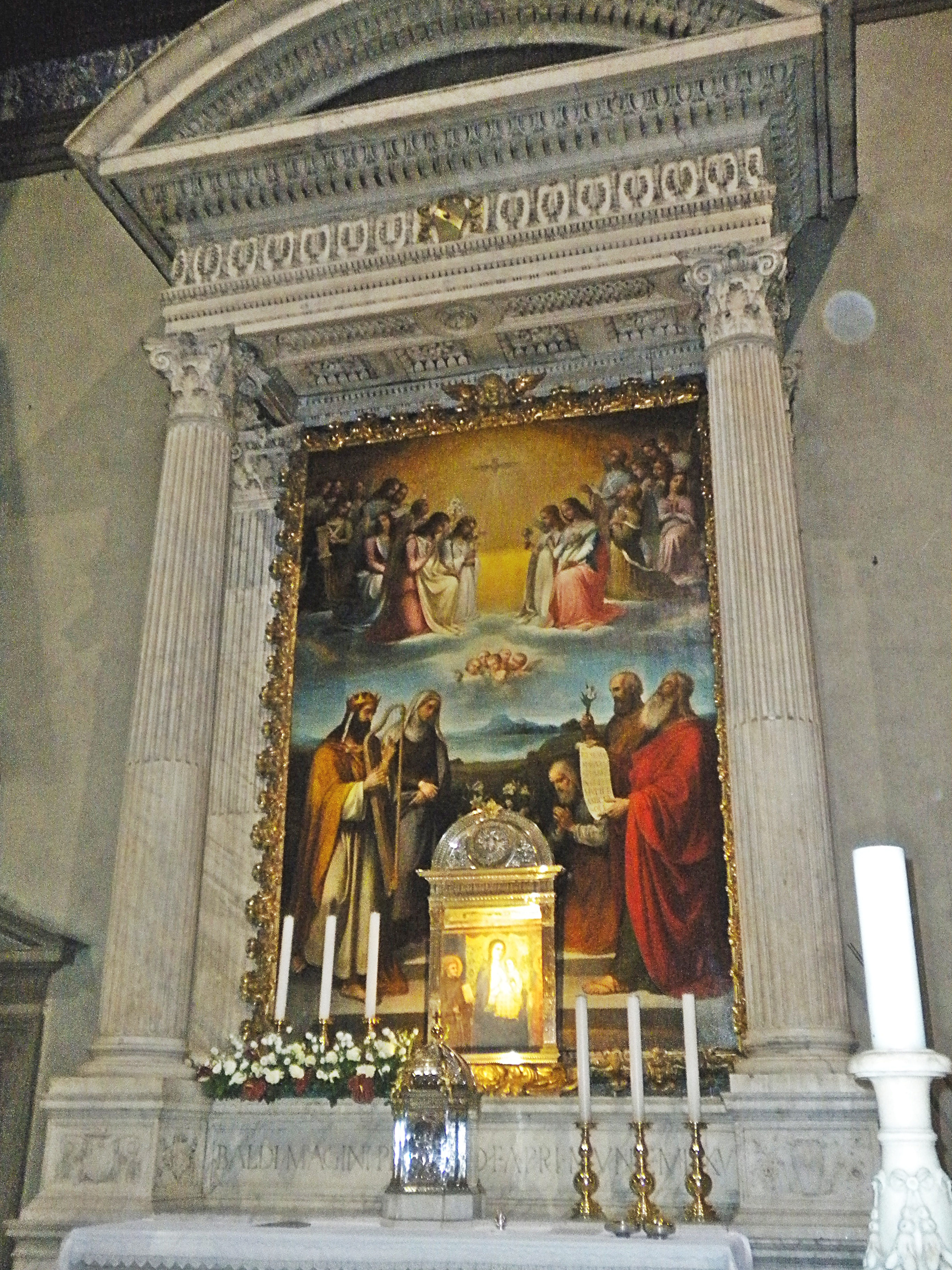 painting